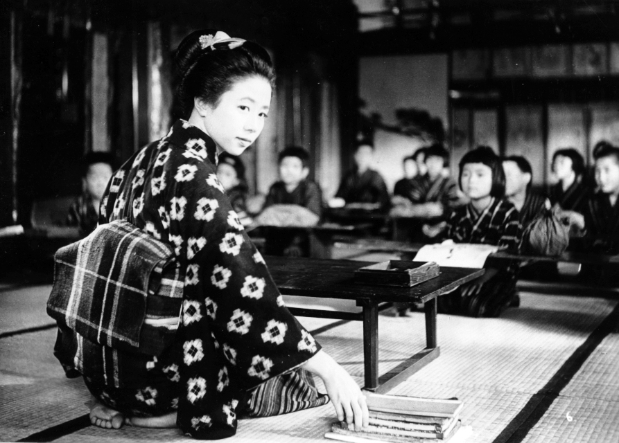 Nobuko Otowa and children in 1953 Japanese movie Yoakemae(Before the Dawn).